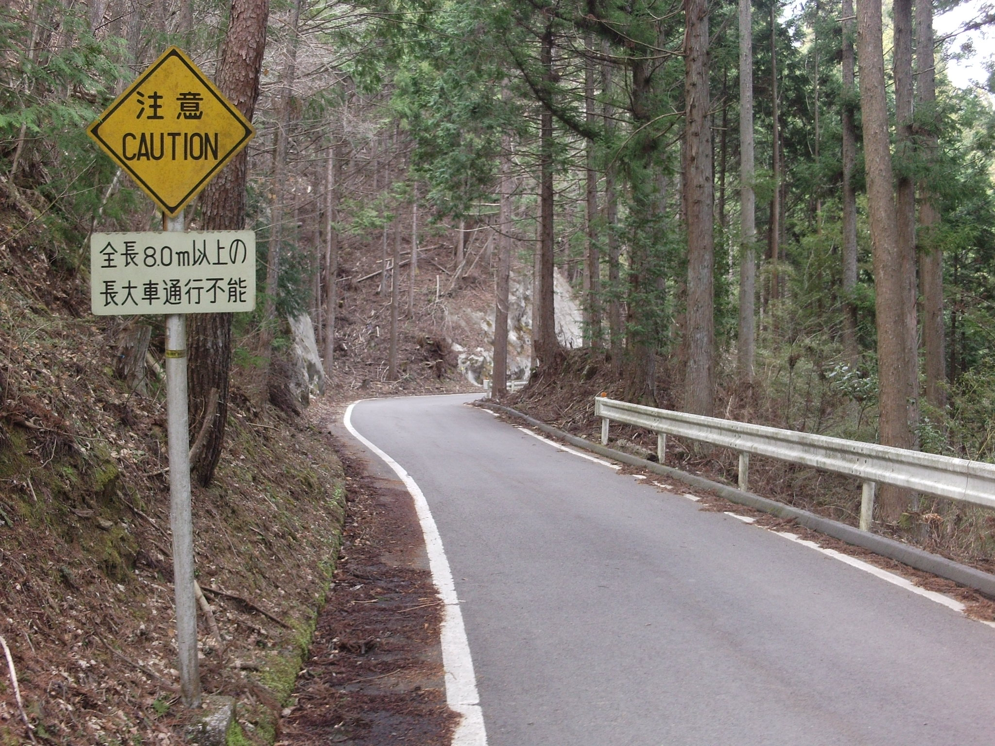 The Aichi Prefectural Road Route 426 in Tsugu, Shitara Town. Sign says: large-sizes cars of more than 8.0 meters of length are unable to pass